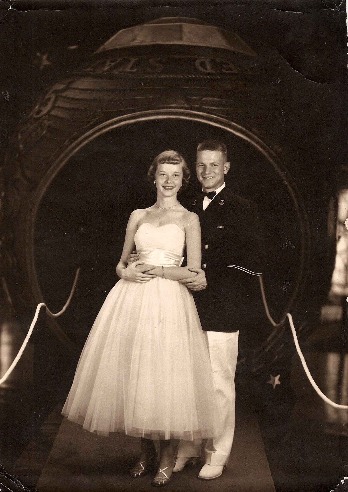 Henry C. Mustin and Lucy H. Mustin, USNA Ring Dace, 1954